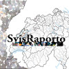 Logo of the YouTube Channel SvisRaporto